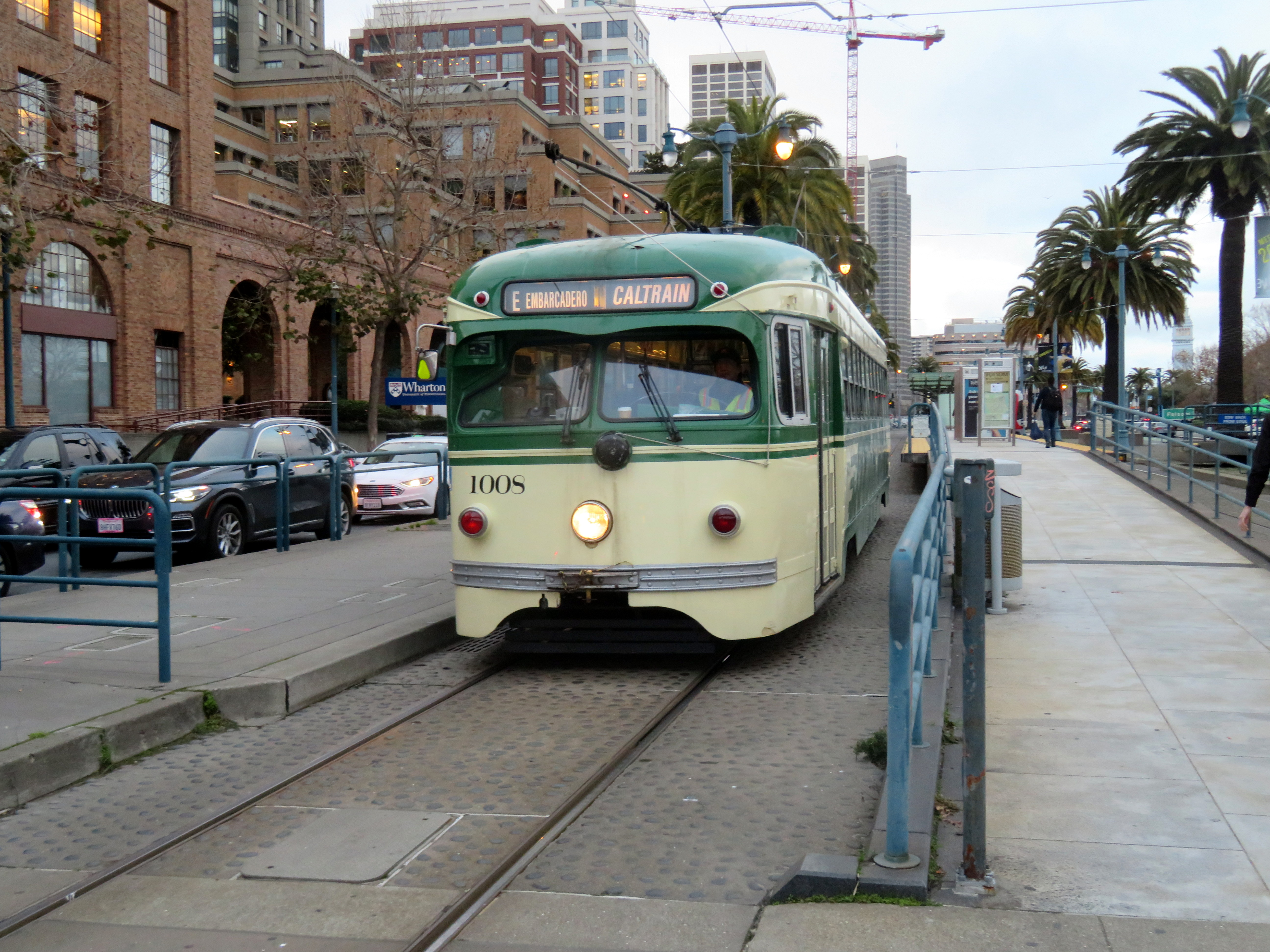 Muni 1008 southbound at The Embarcadero and Harrison station in January 2020